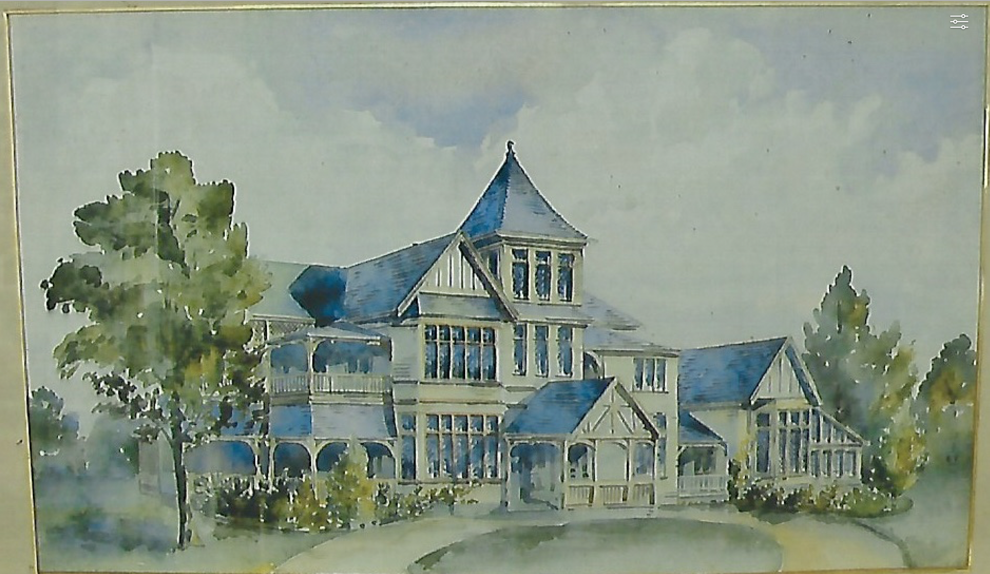 Painting of the Finlay home "Blytheswood", Turrmurra, NSW, Australia